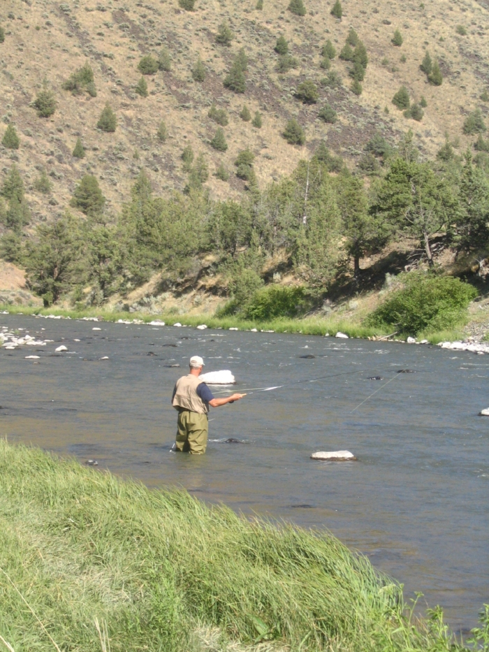 Man fly fishing on the Crooked River in Central Oregon.